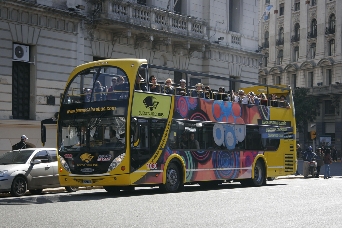 Buenos Aires' Touristic Bus in 2011. Metalsur Starbus coach (reg. HZC 776, #1060) with Mercedes-Benz chassis in Buenos Aires, Argentina. Buenos Aires Bus - flechaBUS operator.